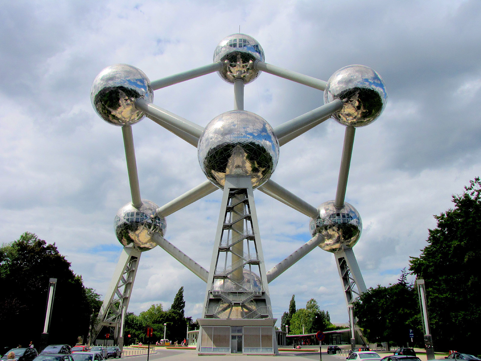 The Atomium is one of the most original and striking buildings in modern architecture. Designed by André Waterkeyn for the 1958 World Fair in Brussels, this structure is made of 9 interconnected steel spheres connected in a crystal-like lattice modeled after the atomic crystal structure of iron (hence the name Atomium). The Atomium is 102 meters tall (335 feet) and large enough to accommodate a restaurant and observation platforms and to provide roomy escalators and staircases inside its tubes for visitors to traverse from one sphere to the next. It is amazing to think that the Atomium was originally built merely as a temporary novelty feature for the World Fair, and was supposed to be dismantled afterwards. Fortunately, it was highly popular and quickly attained iconic status and was spared and is still standing proud after more than 50 years. It exudes unique retro-futuristic charm both inside and out that makes it a delight to visit.